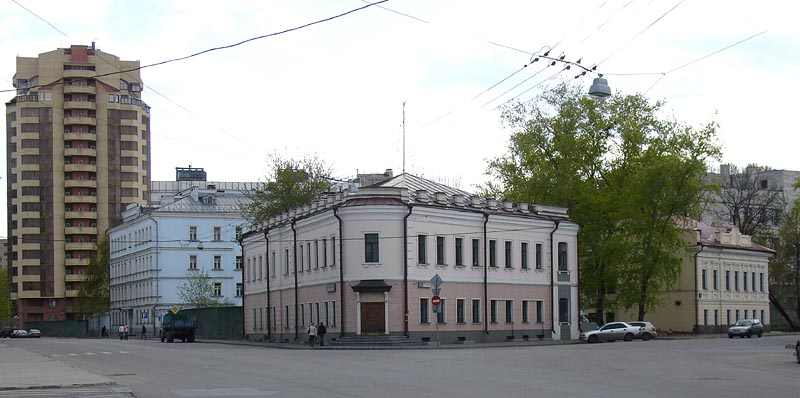 Moscow, corner of Dobrovolcheskaya Street (left) and Tovarischesky Lane (right)